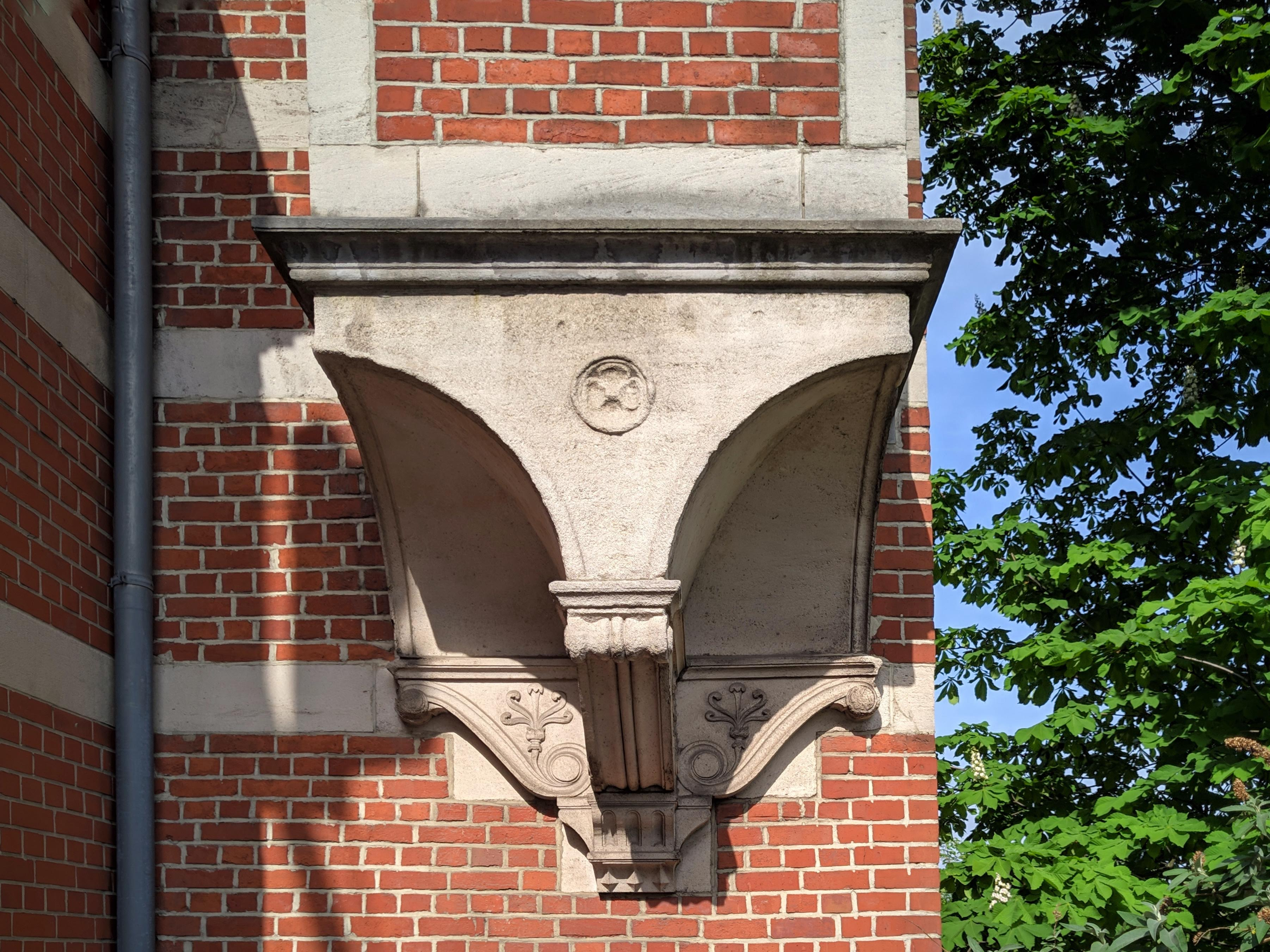 Console de la logette du 40 avenue de la Couronne. Photo prise depuis le trottoir en face du bâtiment.